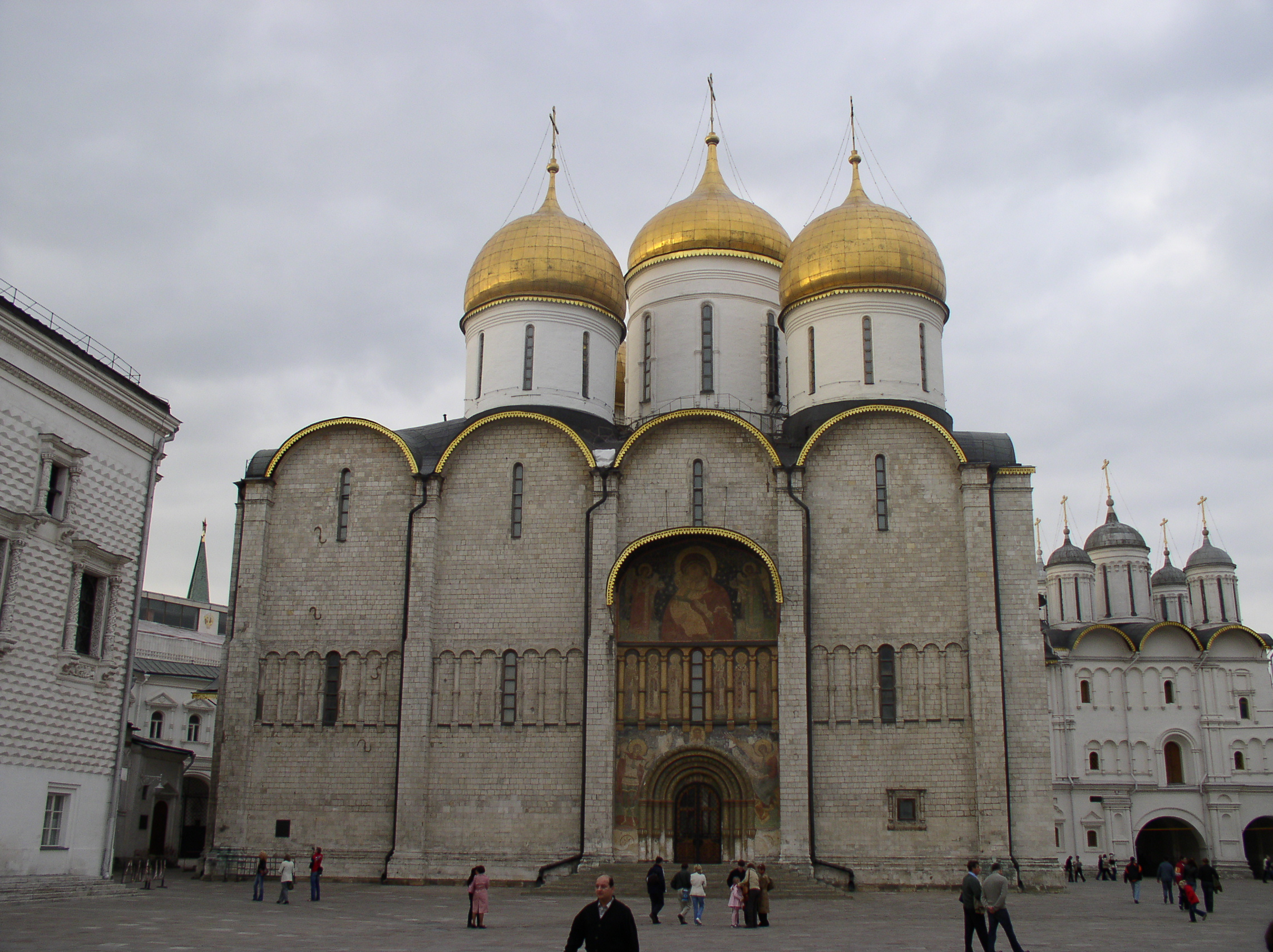 Assumption Cathedral. Moscow, Russia.